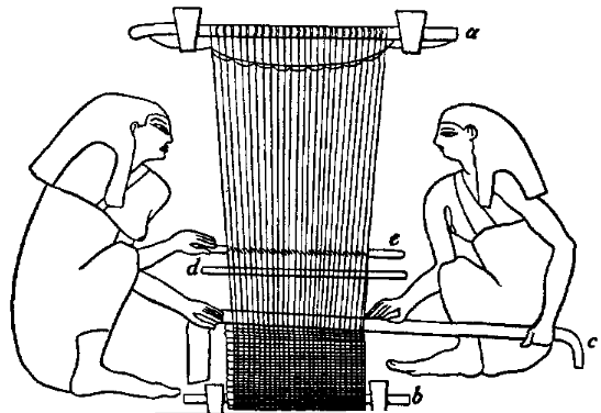 An illustration from the Encyclopaedia Biblica, a 1903 publication which is now in the public domain. Fig. 1 for article "Weaving". Image of women weaving, as depicted on a tomb at Beni Hassan